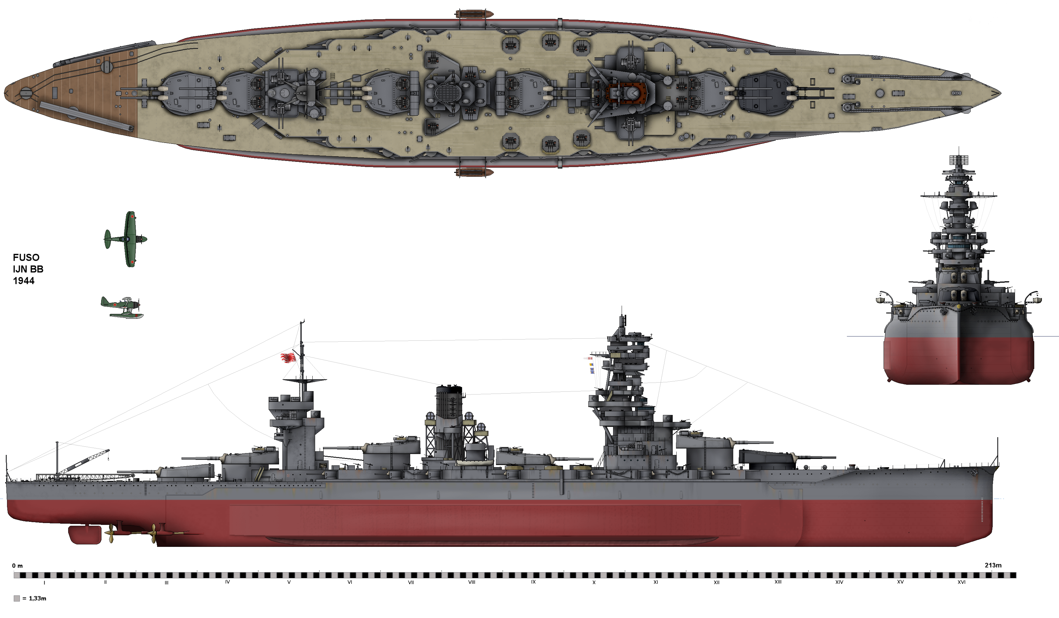 Drawing of battleship Fusō in her 10/1944 configuration.